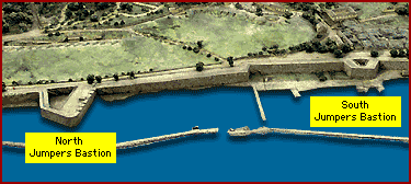 Jumper's Bastion refers to one of two adjacent bastions in the British Overseas Territory of Gibraltar. Shown here on an 1865 model now in Gibraltar Museum